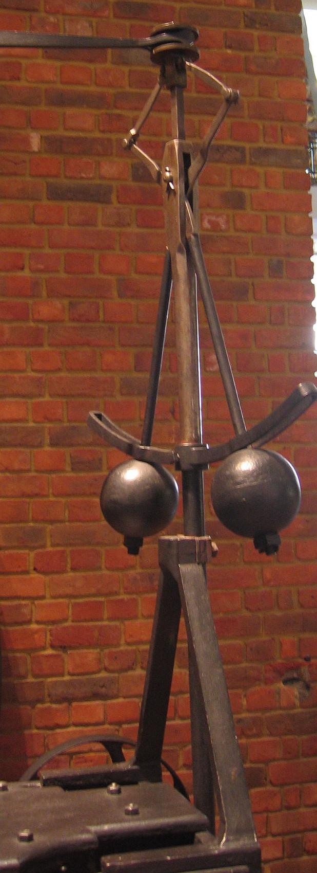 Watt Centrifugal governor